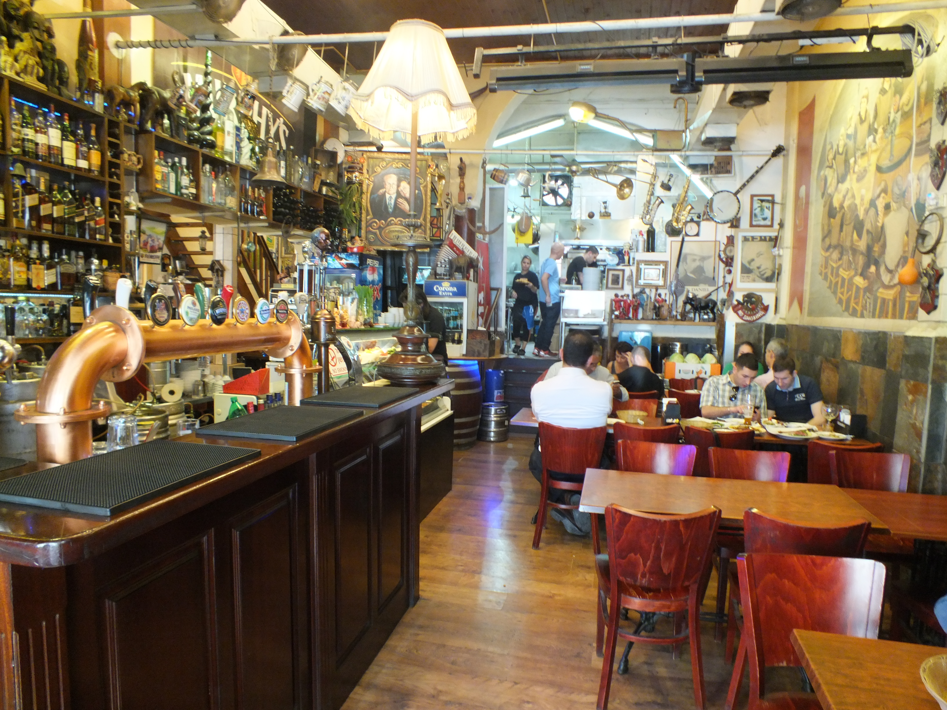 Literally “Beer Fountain” or “Beer Well”, Ma'ayan HaBira is one of Downtown’s older guzzling institutions boasting of traditionally-unrefined kitchen that mainly relies on Central European specialties served with a Middle Eastern touch and attracting Haifa’s middle class pursuing a comforting, noisy and smoky accompaniment to their Costică. Depending on day, this can be your place for lovely gastronomy and horrible service experience in one take.